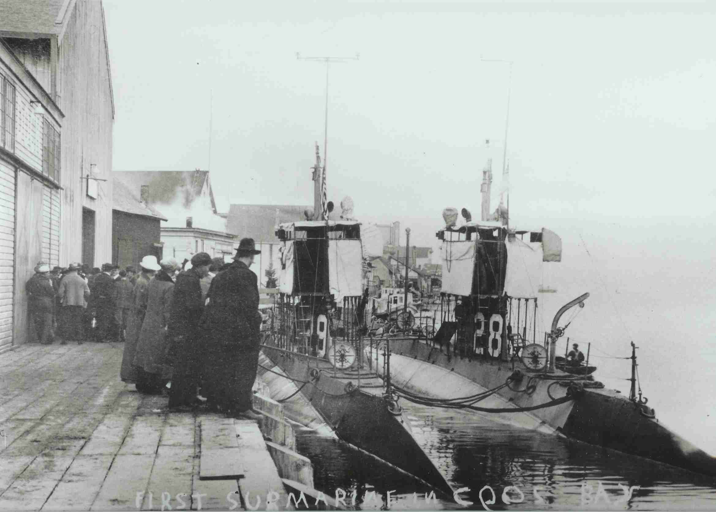 Old photo found in estate collection of SS-28 and SS-29 (H-1 and H-2 respectively) moored in Coos Bay, Oregon sometime between 1914-1917.